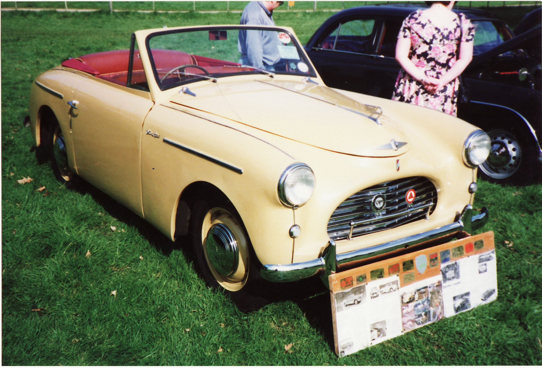 Austin A40 Sports (built by Jensen) c.1951